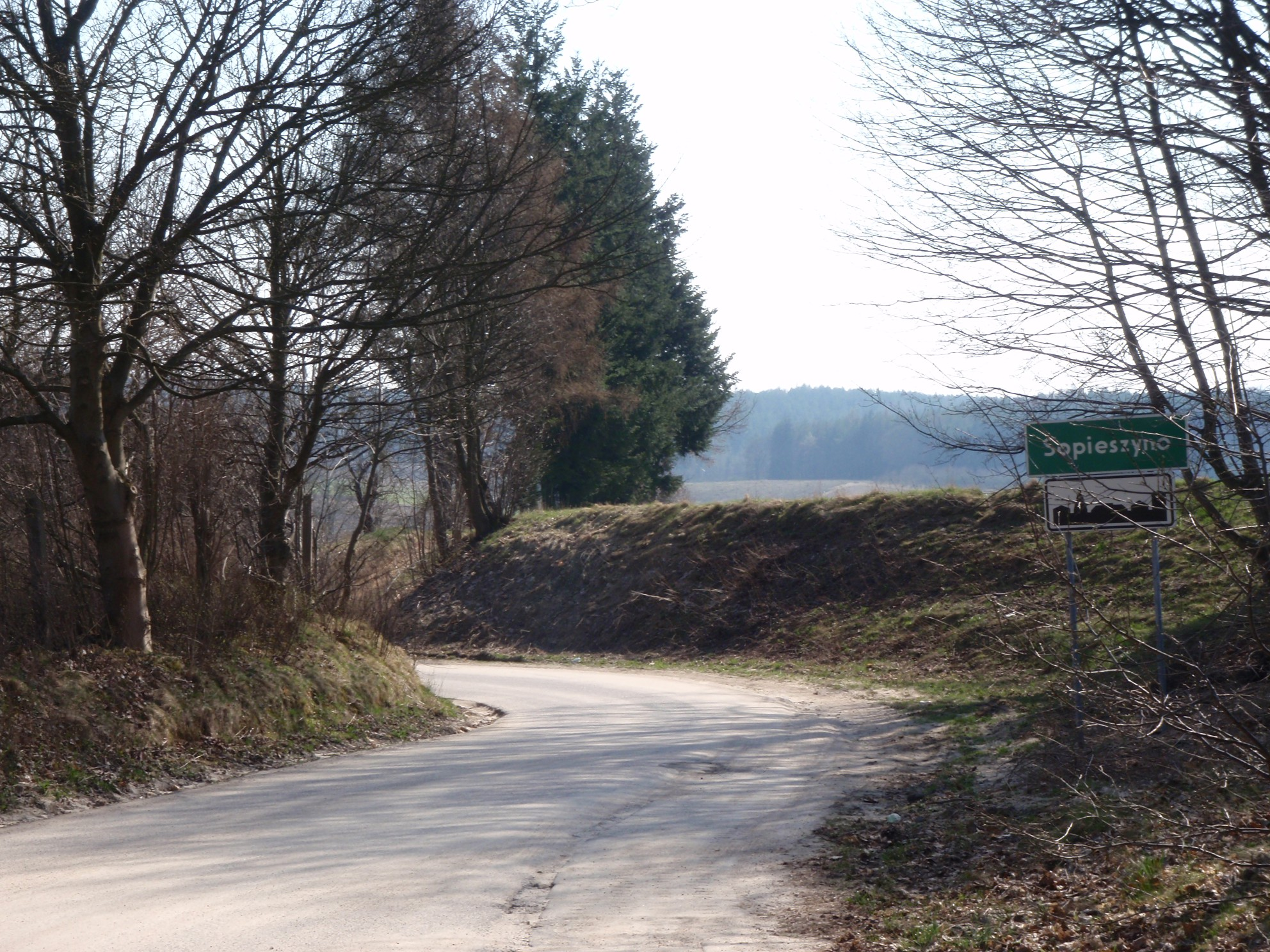 enterance to village Sopieszyno (POLAND), road from Ustarbowo